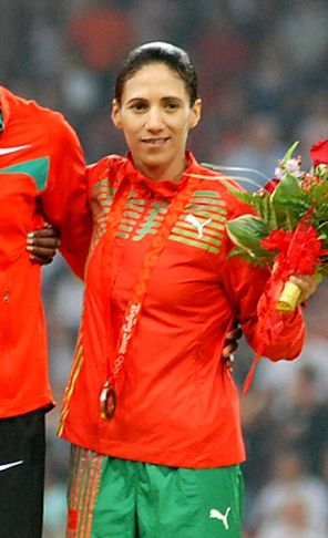 [Magharebia/Mawassi Lahcen] Morocco's Hasna Benhassi stands with her bronze medal from the 800m event